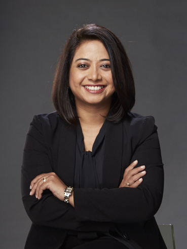 Picture of Executive Editor of Mirror Now, Faye D'Souza